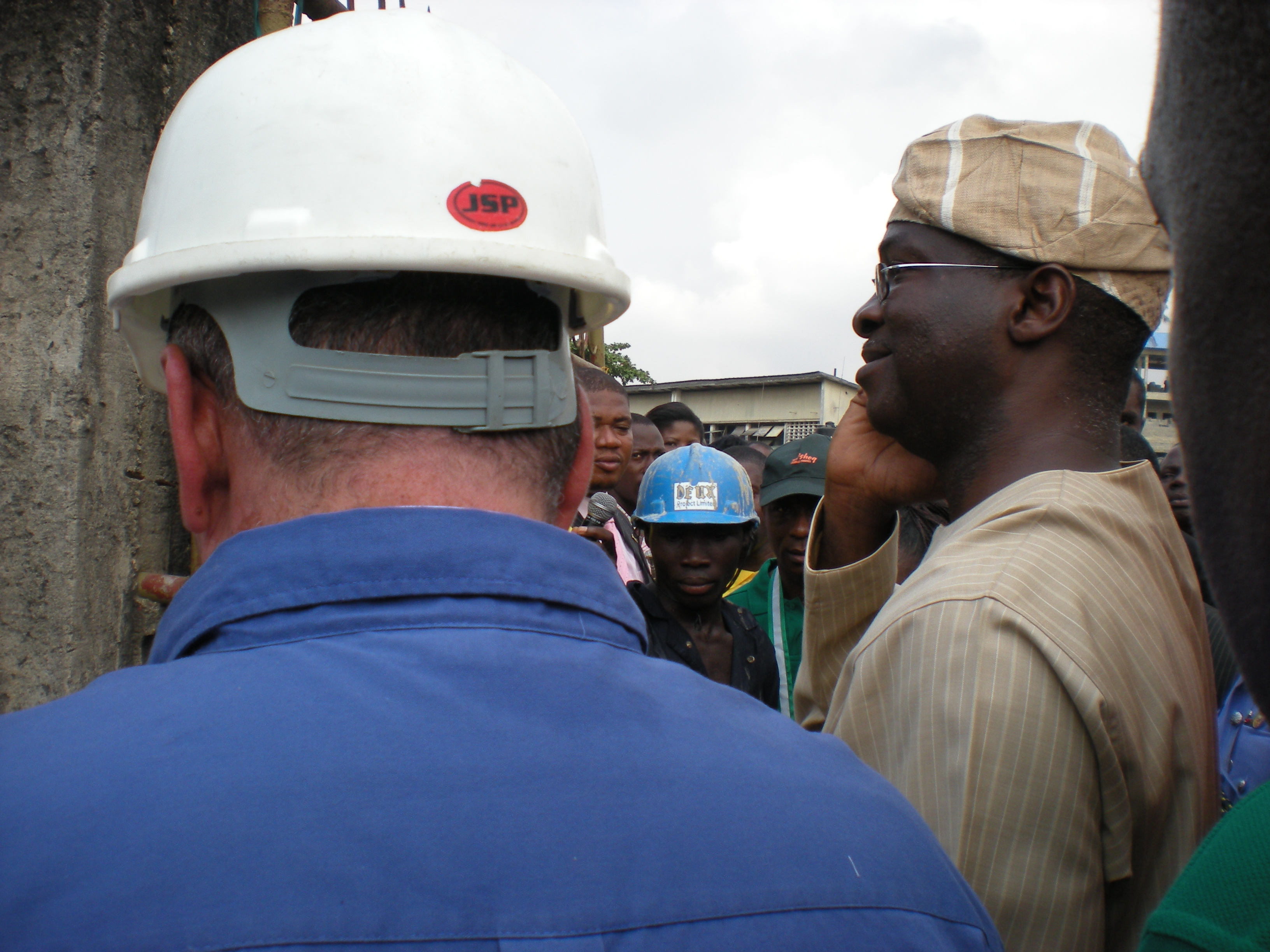 Governor Babatunde Raji Fashola, during the commissioning of a new gate design for Birch Freeman High School; in Lagos State, Nigeria.